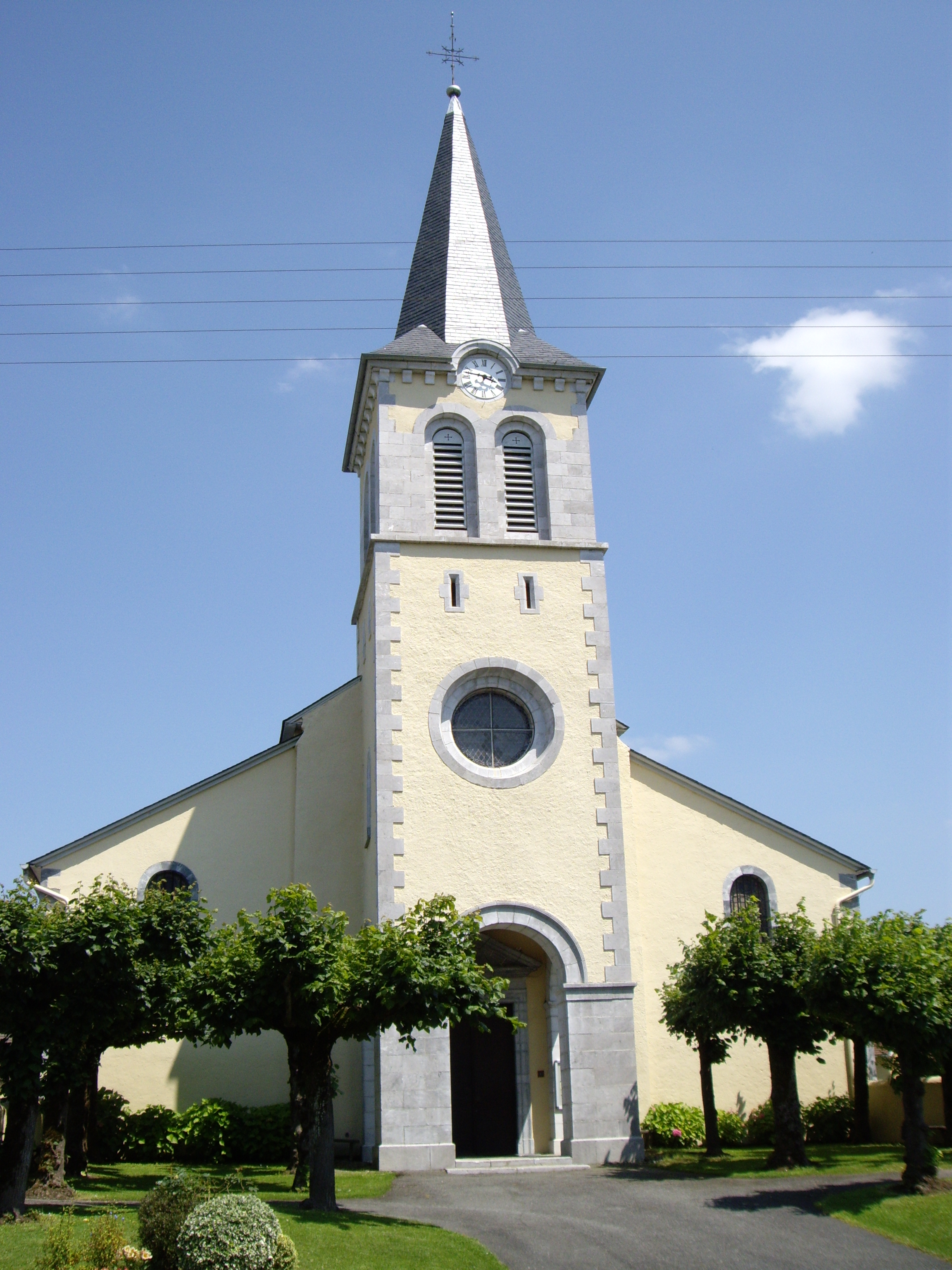 Espouey Church, Pyrénées-Atlantiques, France